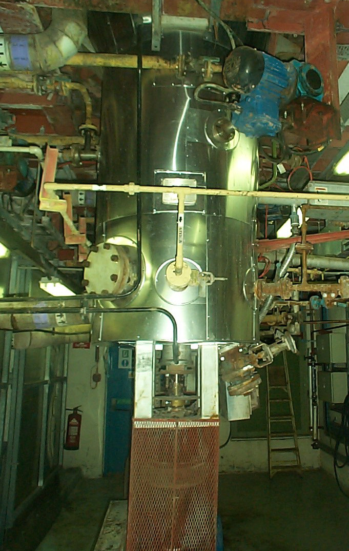 Cobalt fluoride, as used to produce perfluorocarbons (perfluoroalkanes). Other information Please to confirm copyright situation.